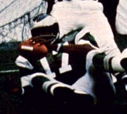 Philadelphia Eagles wide receiver Harold Carmichael scoring a touchdown against the New Orleans Saints during a November 6, 1977 home game at Veterans Stadium.